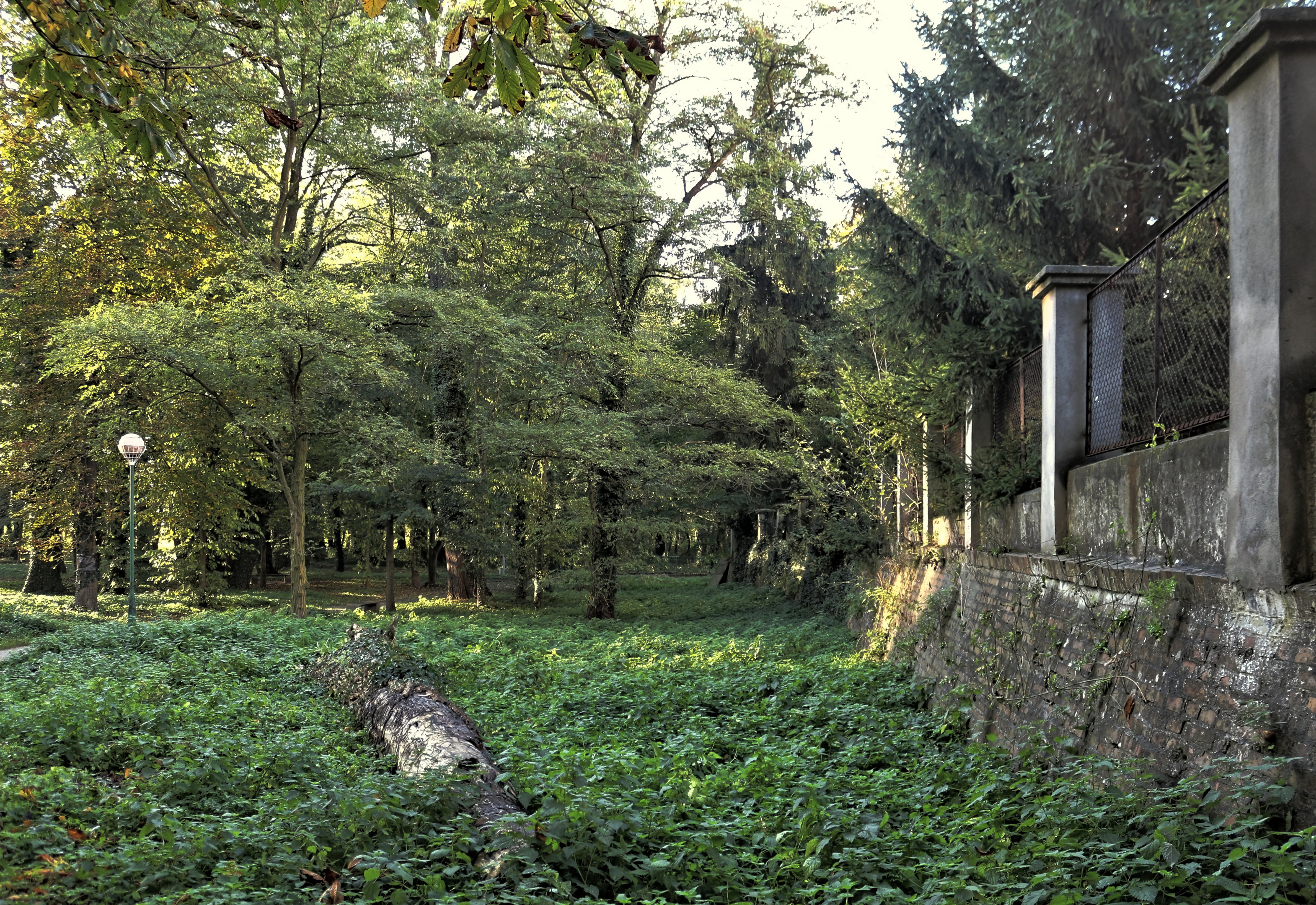 Sława, town park